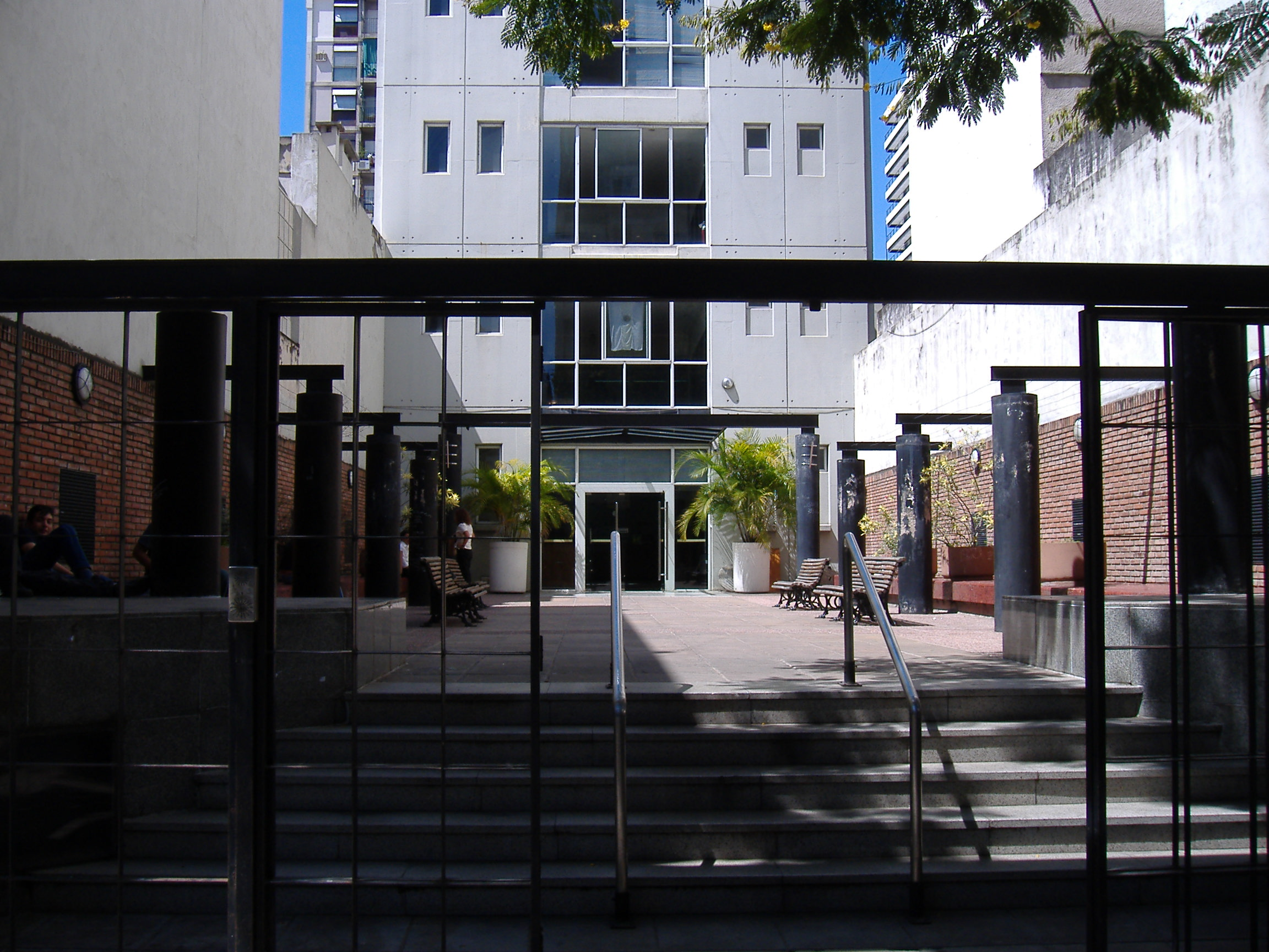 Biblioteca Argentina "Dr. Juan Álvarez", on Presidente Roca St., a large public library in Rosario, Argentina. This library carries the name of its founder, the judge and historian Juan Álvarez, who wrote a seminal history of the city. This picture was taken by Pablo D. Flores on 7 March 2006.